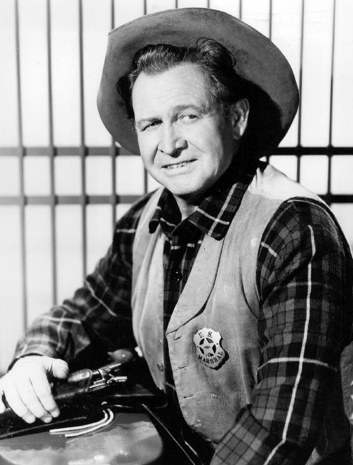 Photo of Barton MacLane as Frank Caine from the television program Outlaws.